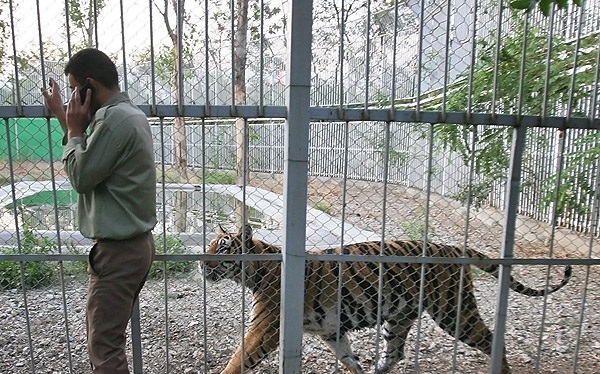 Tehran Zoological Garden - 3 September 2011. main album